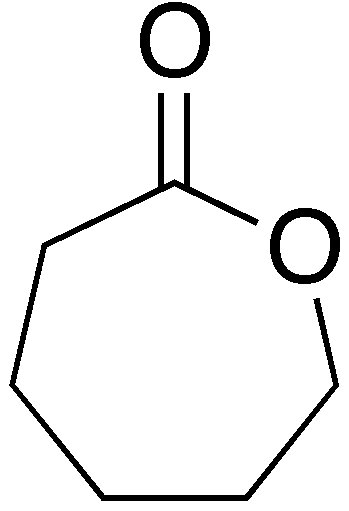 Chemical structure of caprolactone created with ChemDraw.